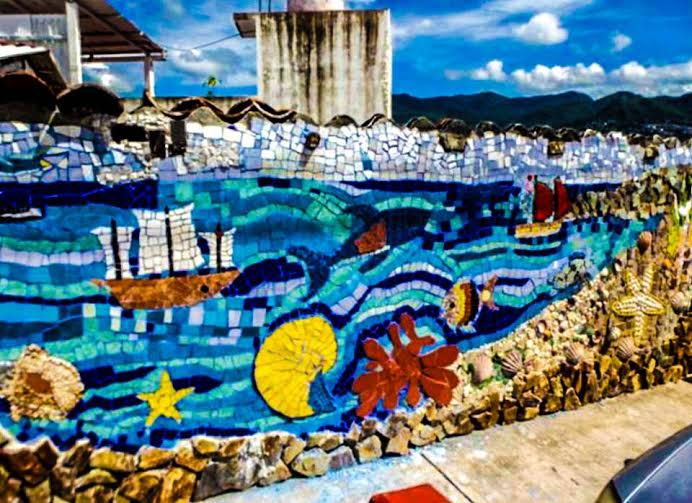 Mosaico en barrio de Petaquillas, Acapulco